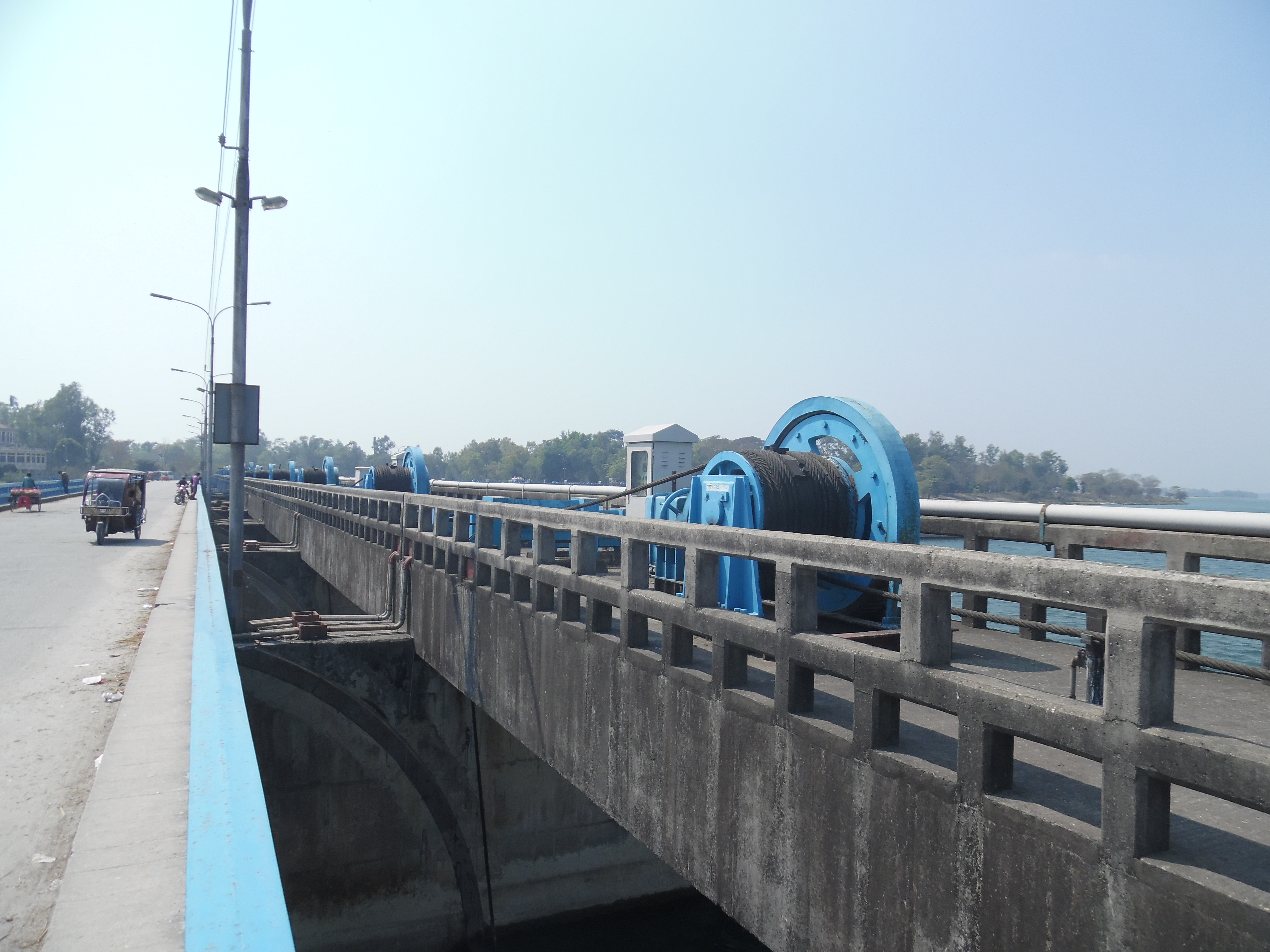 Tista Barrage on the river Tista at Dalia, Nilphamari, Bangladesh. (01.03.2019)